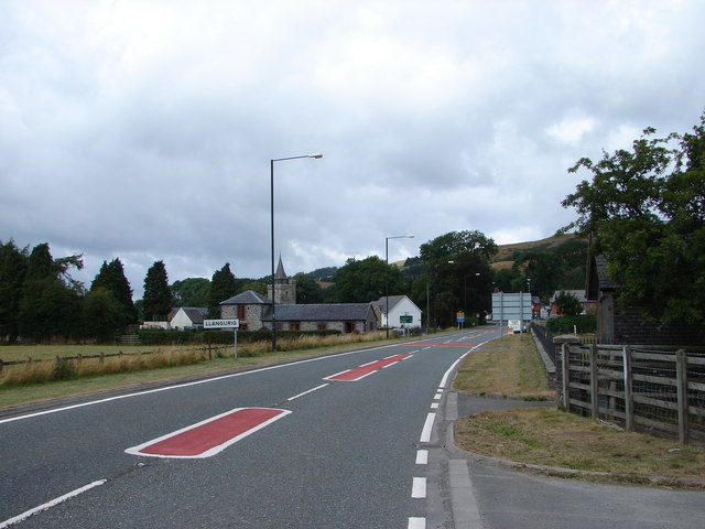 A44 Road, near to Llangurig, Powys, Great Britain. Looking westwards towards the village of Llangurig